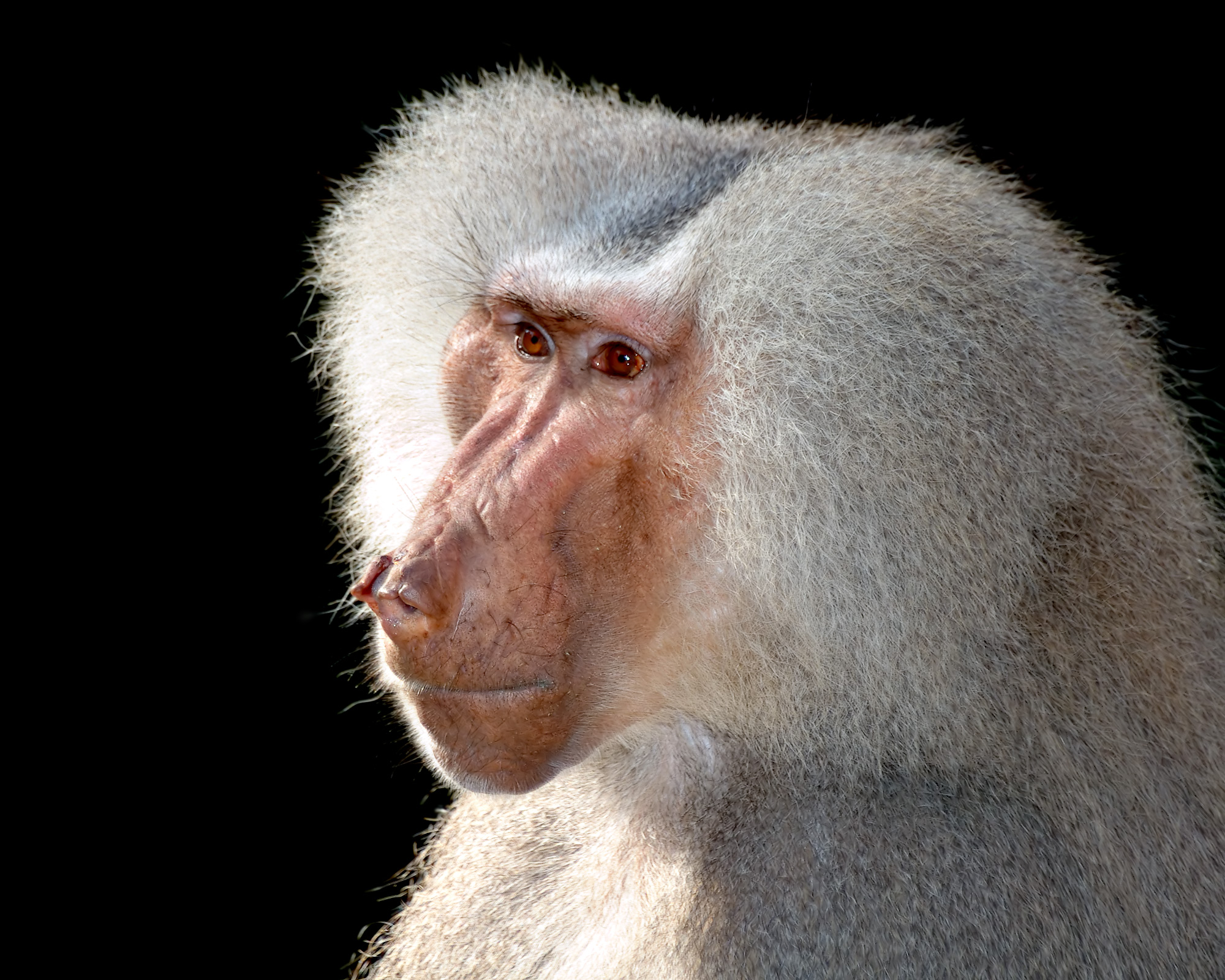 This image shows a head close-up of a Hamadryas Baboon (Papio hamadryas). It was taken at the Leipzig Zoo in front of the entrance of an almost completely dark cave, while the animal itself was still illuminated by the sun.